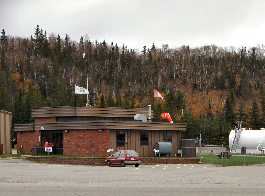 Airport building of Wawa Airport, Michipicoten Township, Ontario, Canada